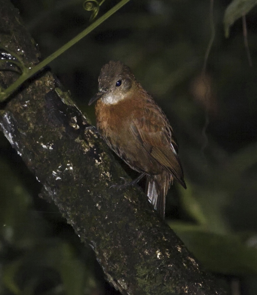 Rufous-breasted Leaftosser (cearensis) at Guaramiranga - Ceará - Brazil